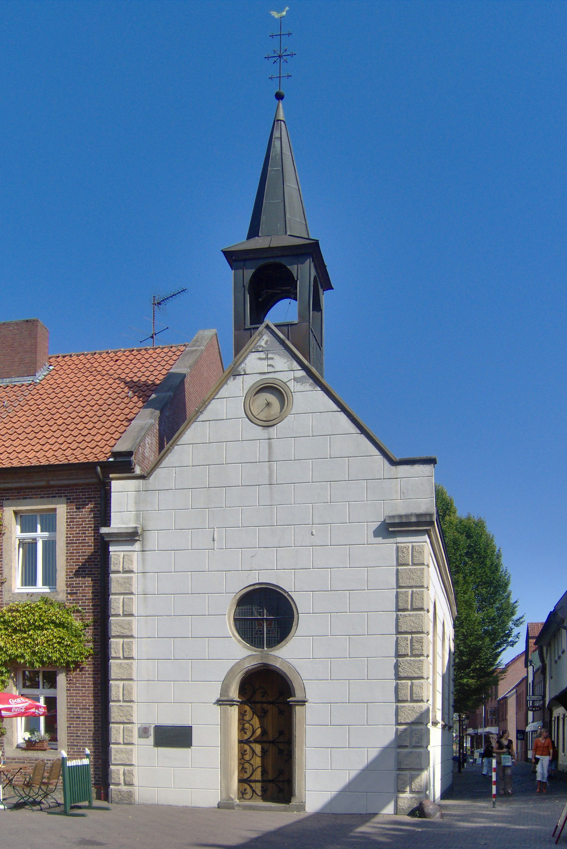 The evangelical chapel Bönekerskapelle in Rheine in North Rhine-Westphalia, Germany